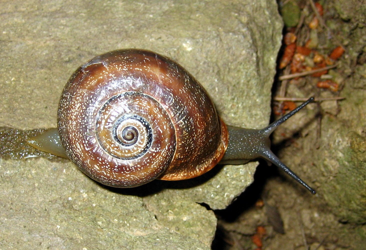 Otala punctata; Terrassa, Catalonia, Spain